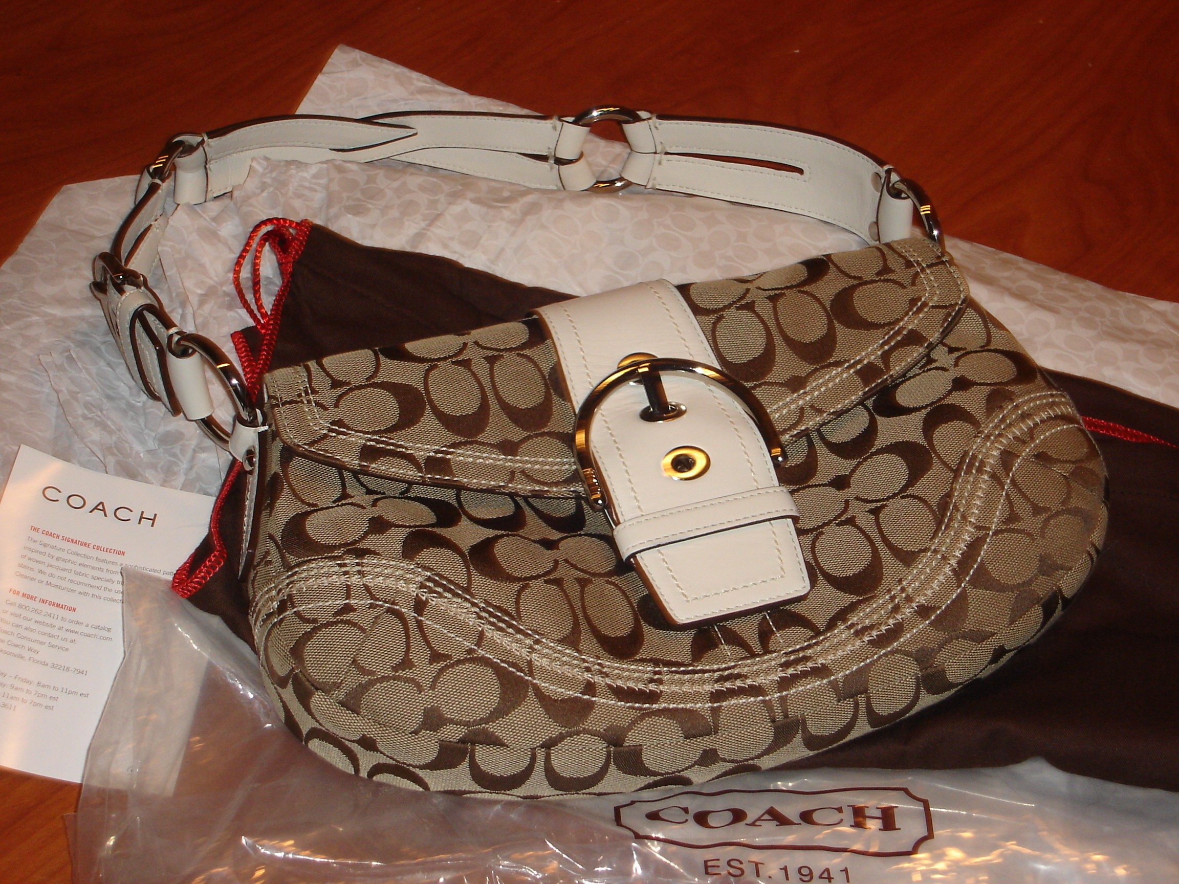 Coach purse